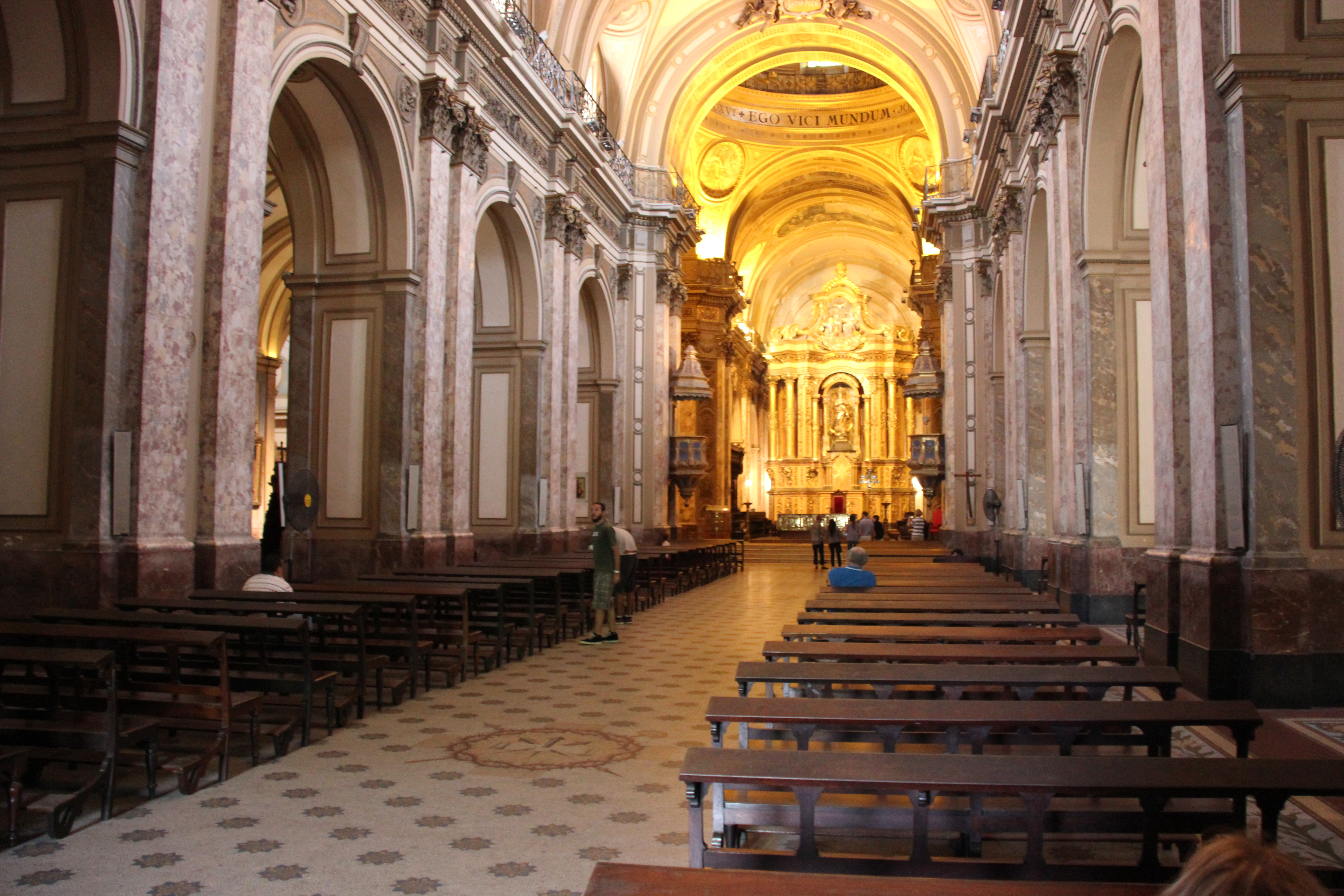 The Buenos Aires Metropolitan Cathedral (Catedral metropolitana de Buenos Aires)